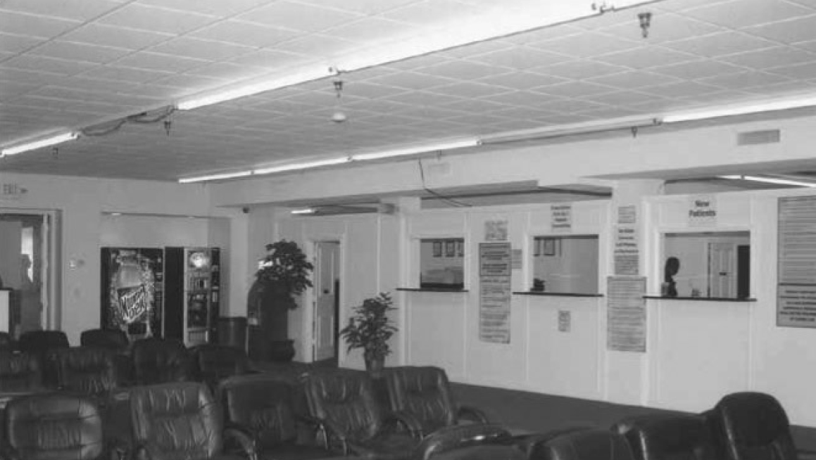 Waiting Room of Pill Mill American Pain. Photo taken by FBI after raid, March 03, 2010.